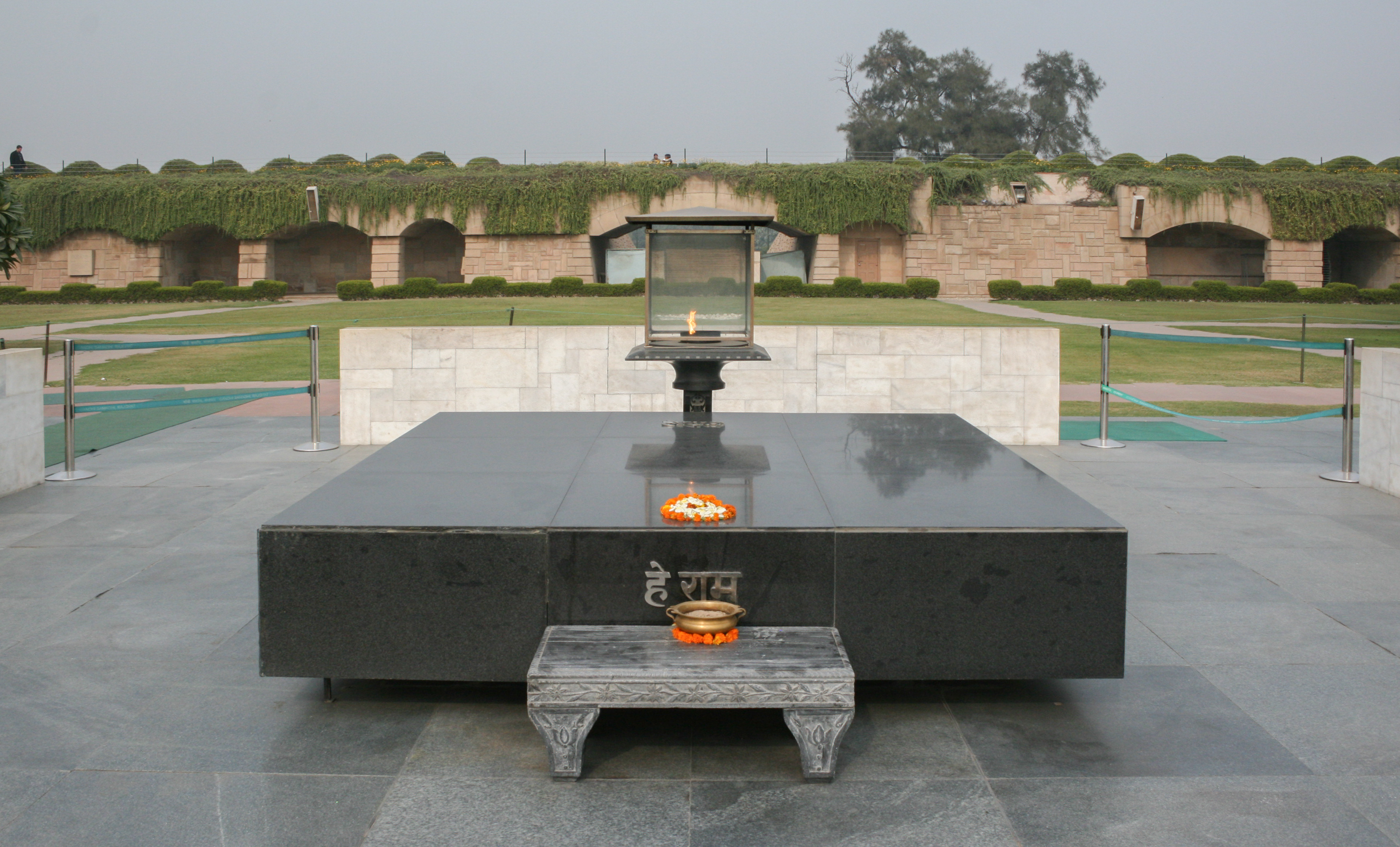 Rajghat, Delhi, India